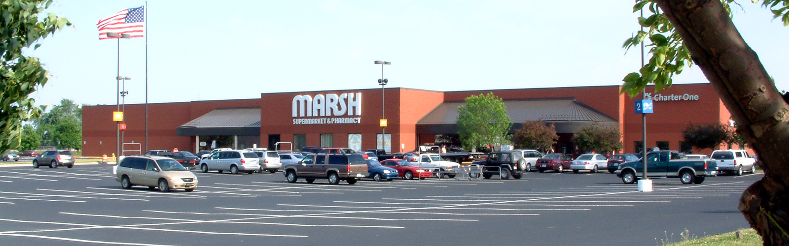 A Marsh Supermarkets store in Lafayette, Indiana. This photo is of store #47 at 3825 South Street, near the corner of State Road 26 and Creasy Lane; it was built in 1995 and closed in spring 2015.